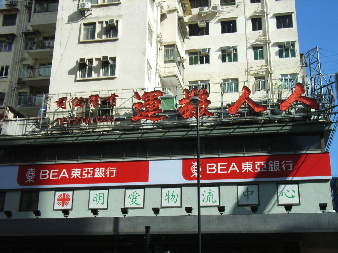 CARITAS LOGISTICS CENTRE, 40 Waterloo Road, Kln 九龍zh:油麻地zh:窩打老道40號 Photo by TonySKTO